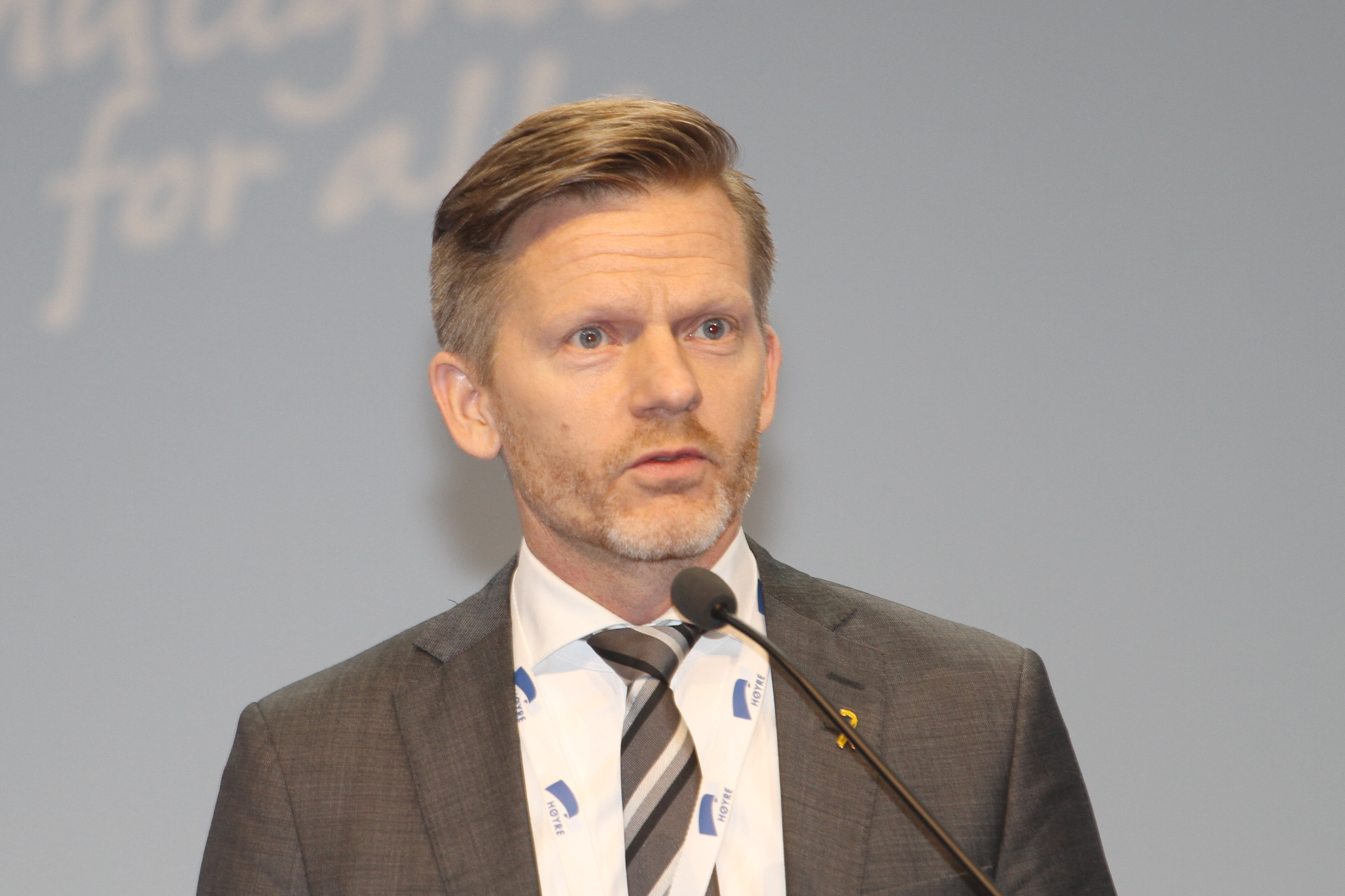 Tage Pettersen